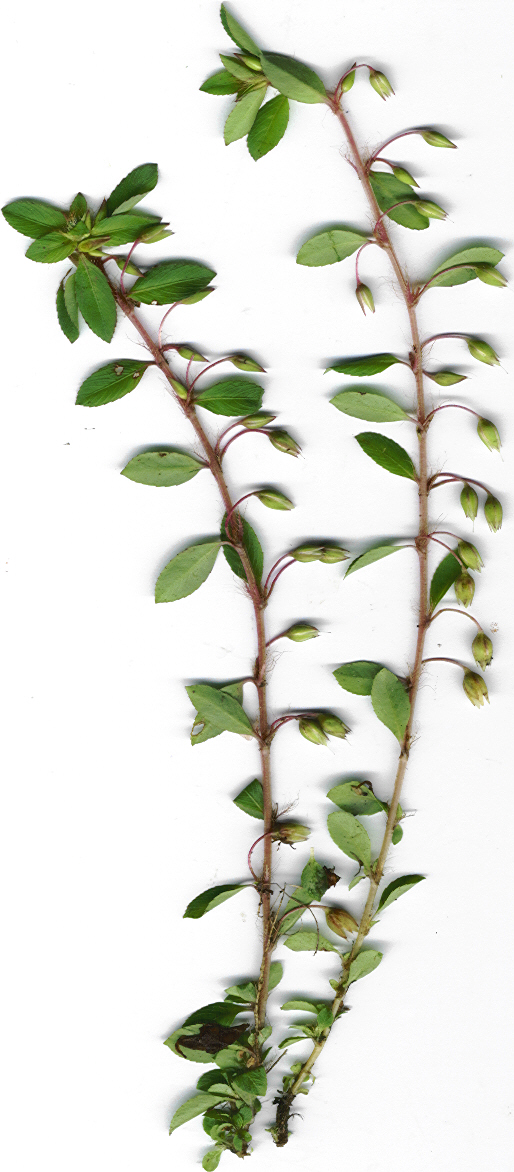 Sauvagesia erecta (plant). Location: Maui, Wahinepee